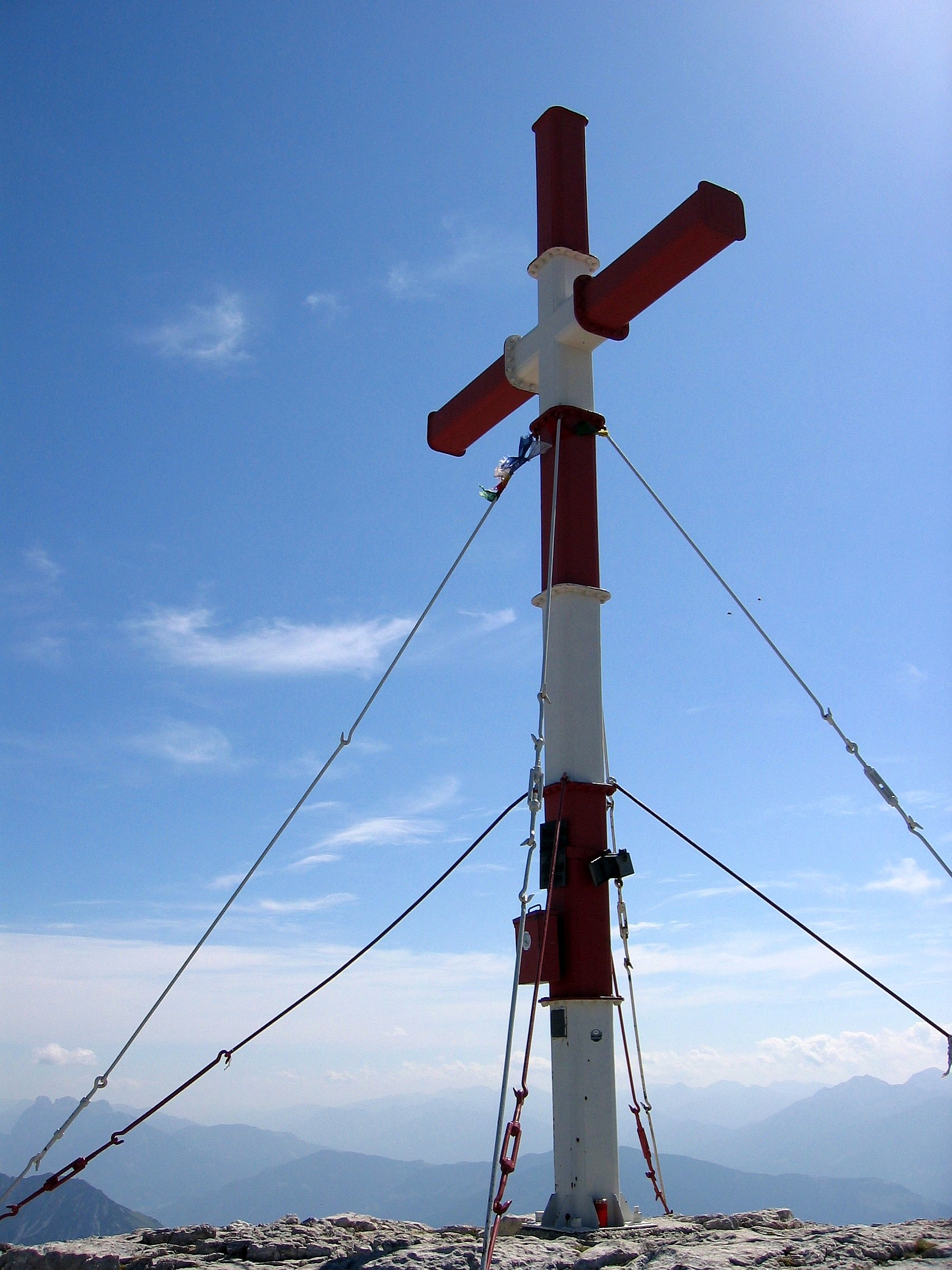 Cross at summit of Warscheneck